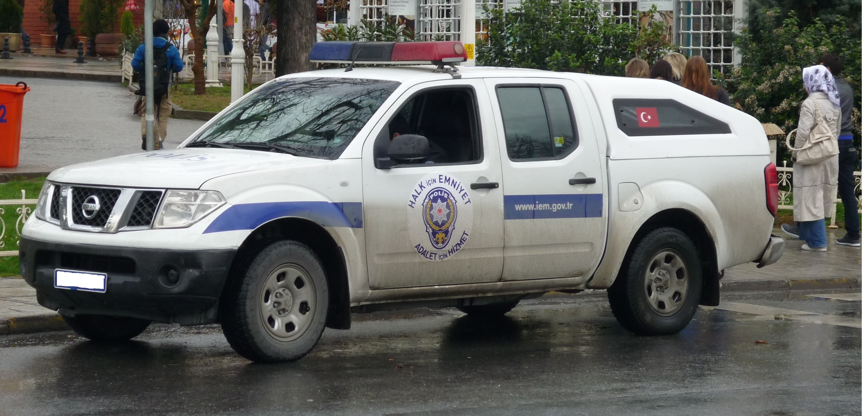 Police car in Turkey, Istanbul, Sultanhamet - Nissan Navara D40